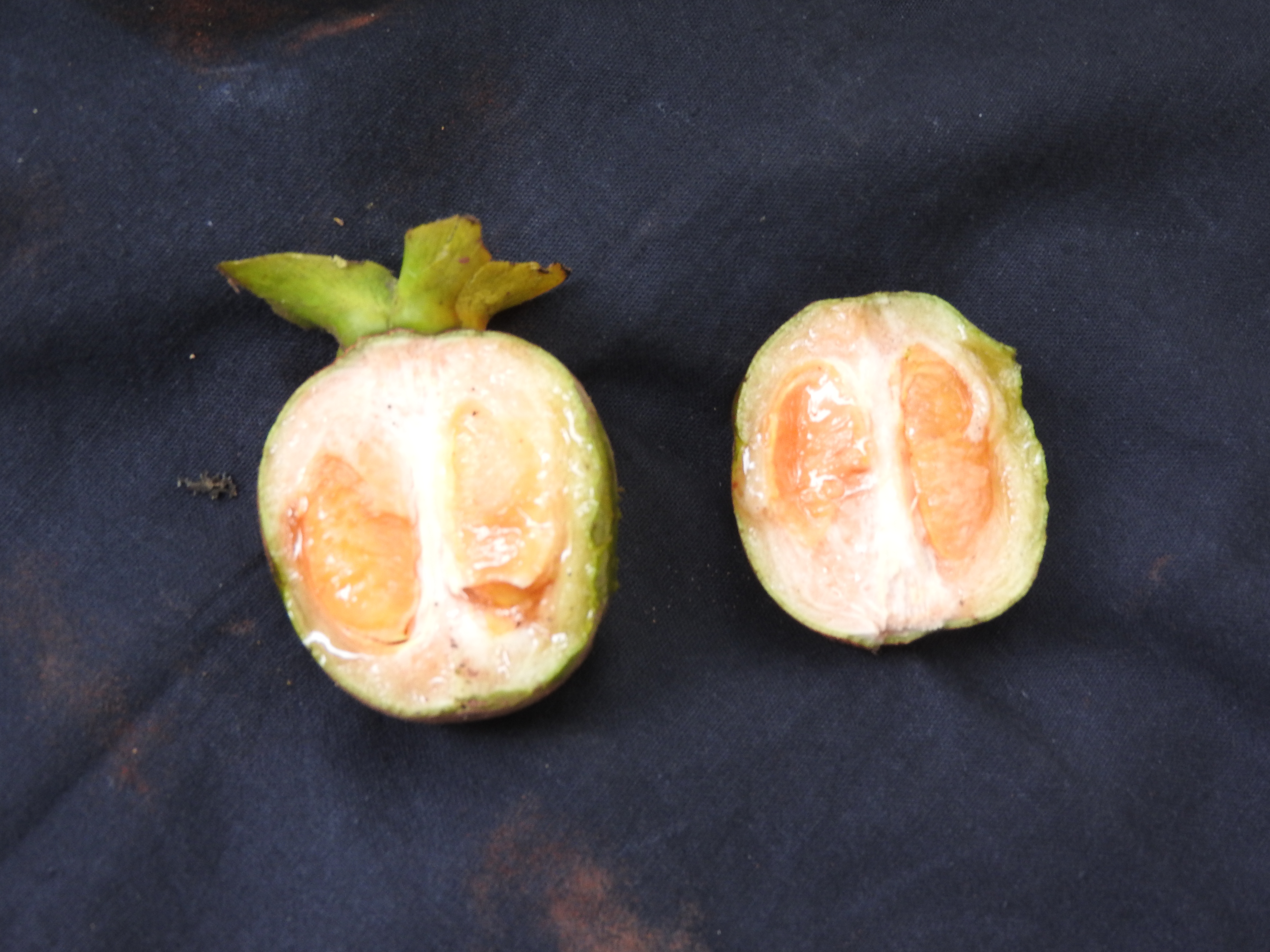 Ebanaceae-vellaithuvarei;tree,flowers bright yellow,fruits brown then yellow.